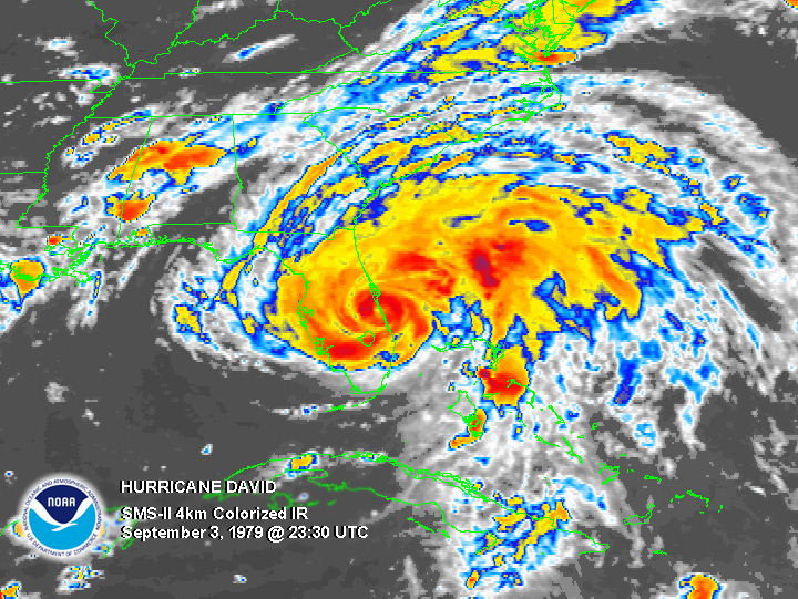 This image shows Category 2 Hurricane David just south of Melbourne, FL a few hours after making landfall near West Palm Beach, Florida on September 3, 1979.